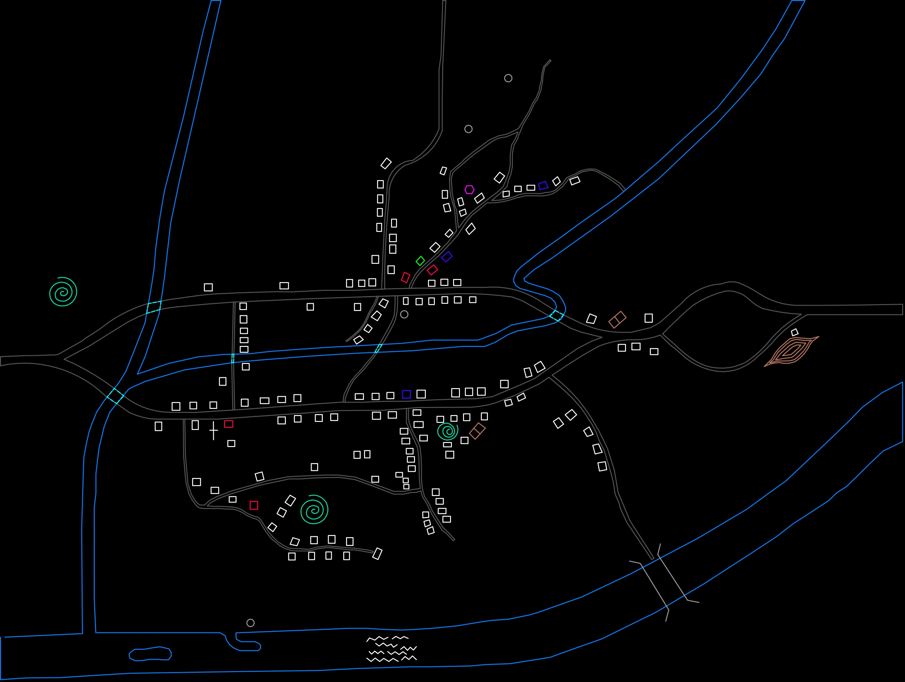 This is an illustrated map drawn from childhood memories of a former resident of Caserio La Hacienda Vieja in Canton El Tablon. This map is a collaboration between his memories and his son's artistic skills.